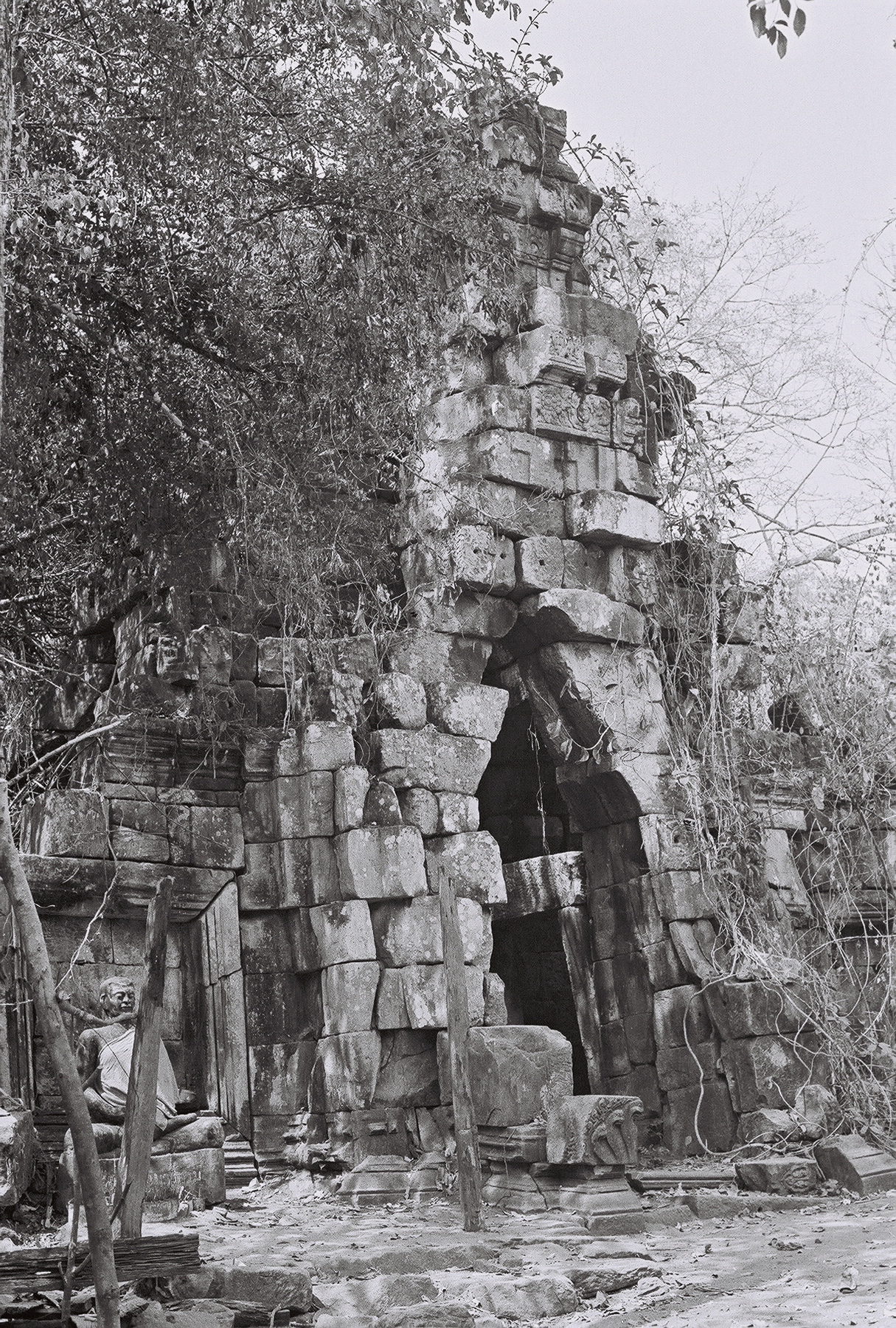 Inner eastern gopura of Sdok Kok Thom temple, Thailand